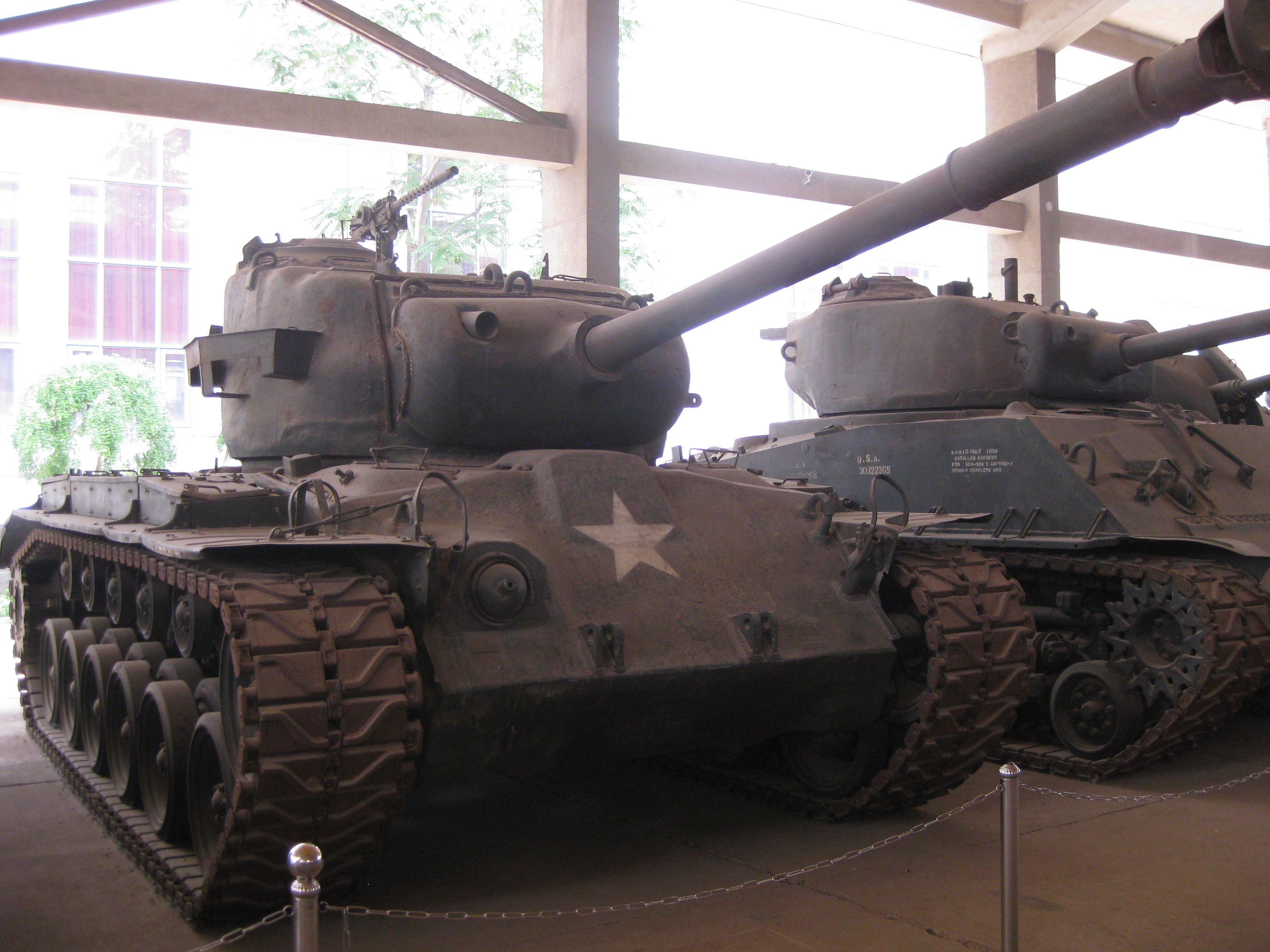 M26 Pershing tank captured in 1950 during the Korean War